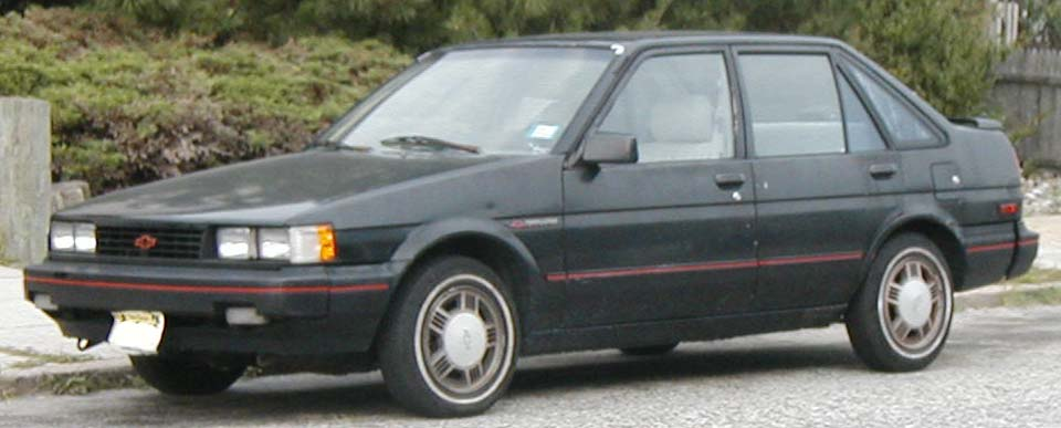 1988 Chevrolet Nova Twin Cam sedan photographed in USA.